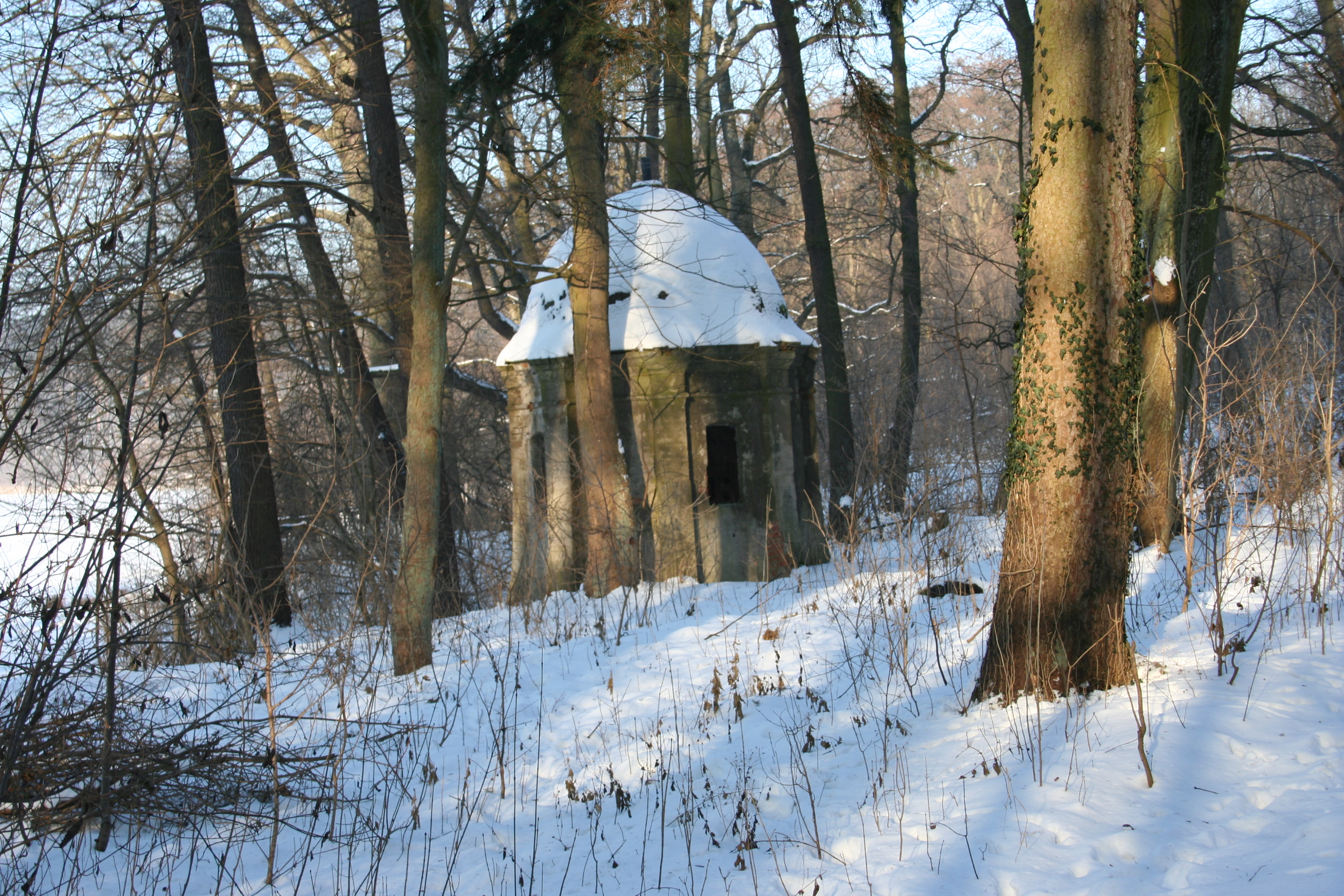 Ruins of the manor house in Kolno village